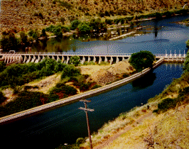 The Link River Dam.